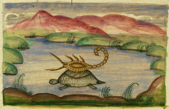 An illustration from a fable in which Tortoise carries Scorpion on its back across a river, Walters Art Museum Ms. W.599, fol.40b From the Kalilah and Dimna, otherwise known as The Anwar-I-Suhaili (Lights of Canopus) or Fables of Bidpai.